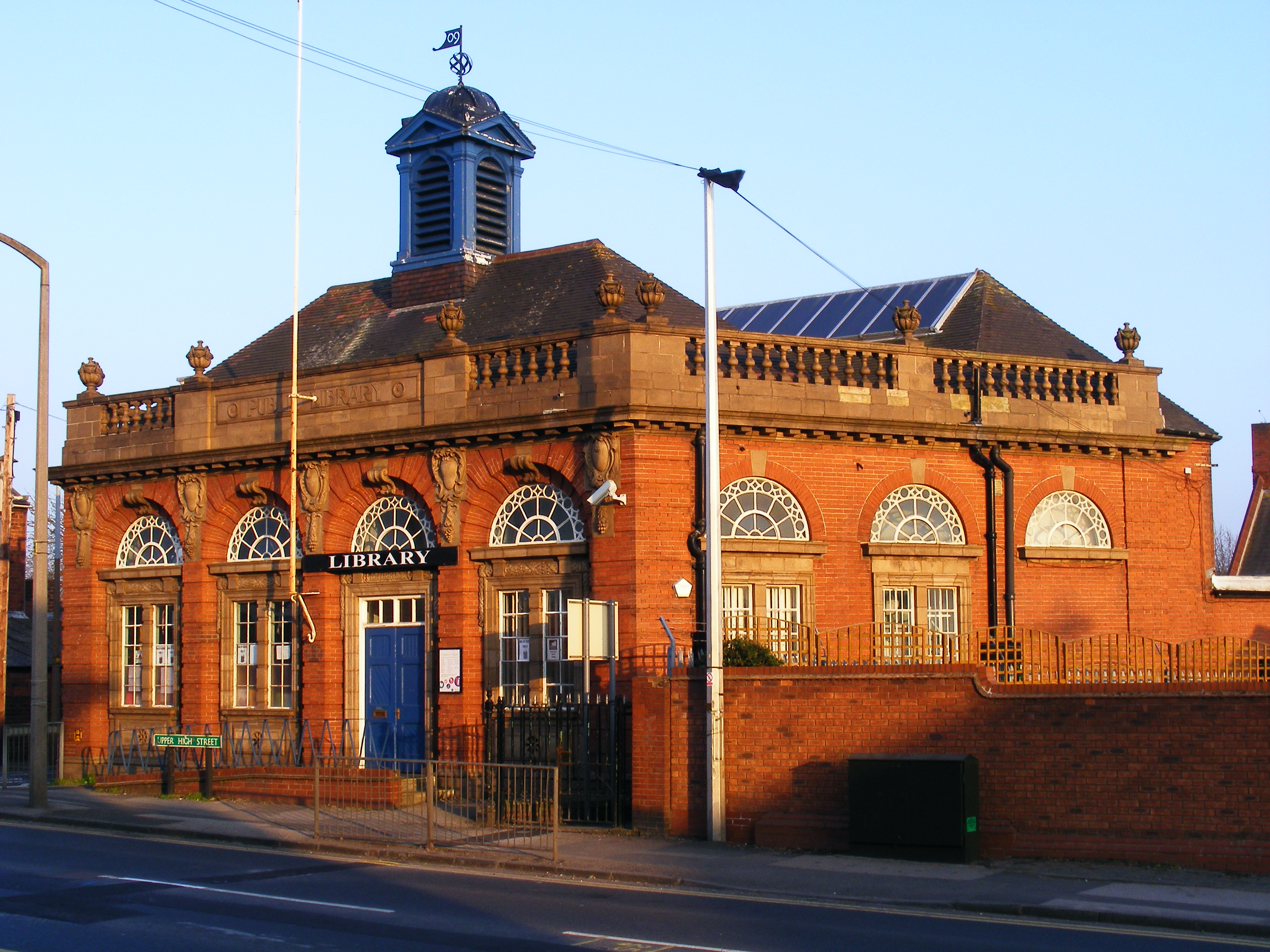 The Public Library, Cradley Heath, which is situated on Upper High Street (between Four-Ways and Old Hill) opposite the new Liberal Club building.